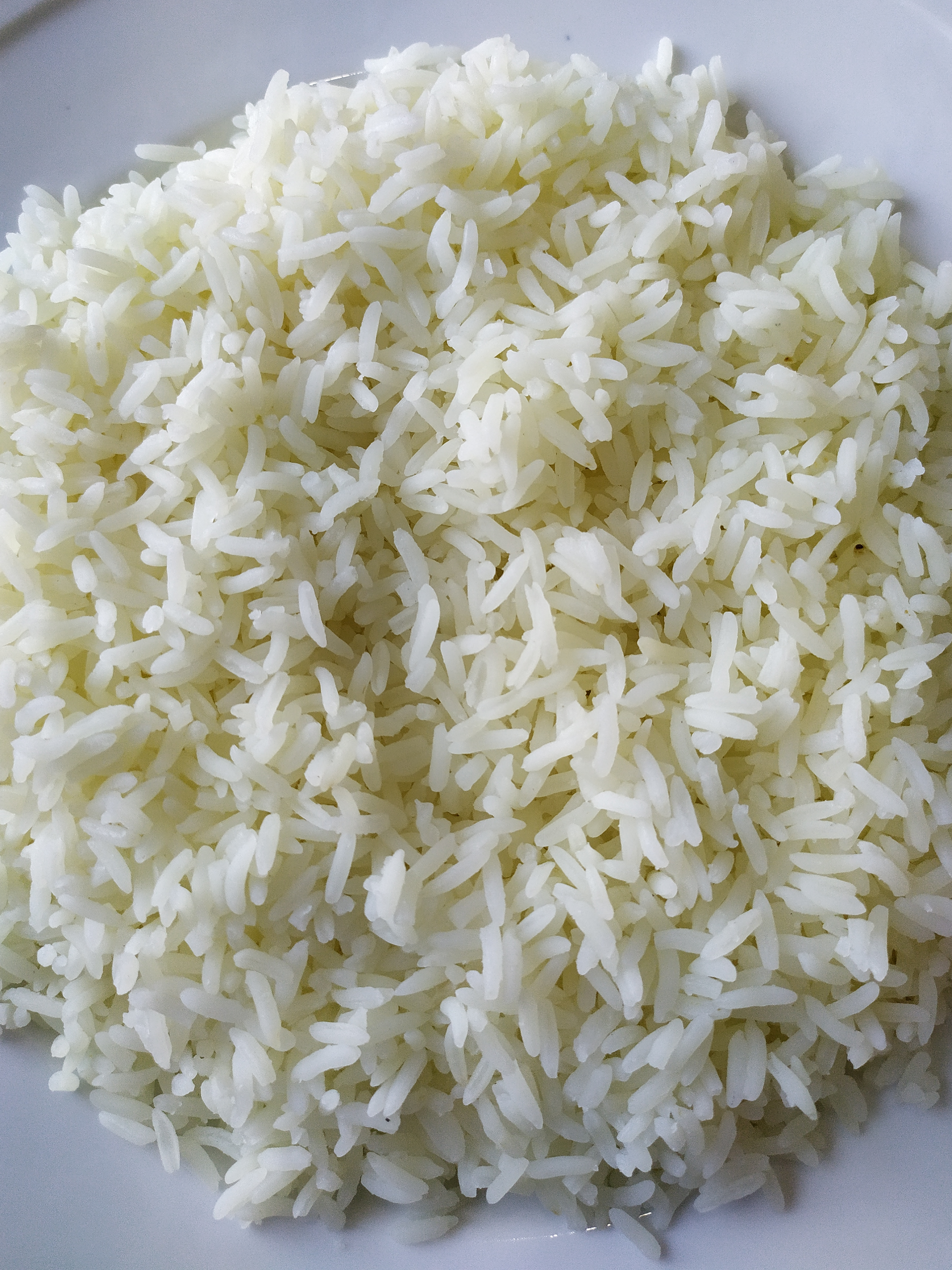 White rice in Bangladesh